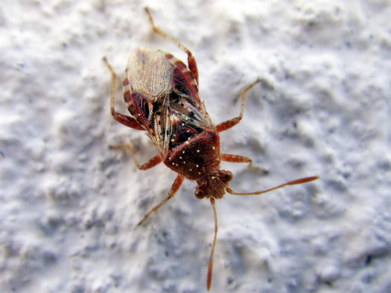 Rhopalus subrufus in Ansião, Leiria, Portugal